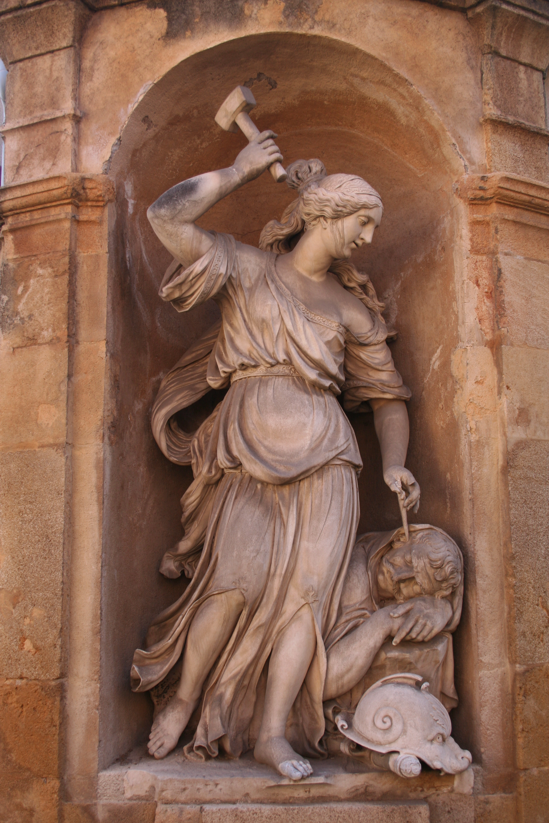 Yael and Sisera